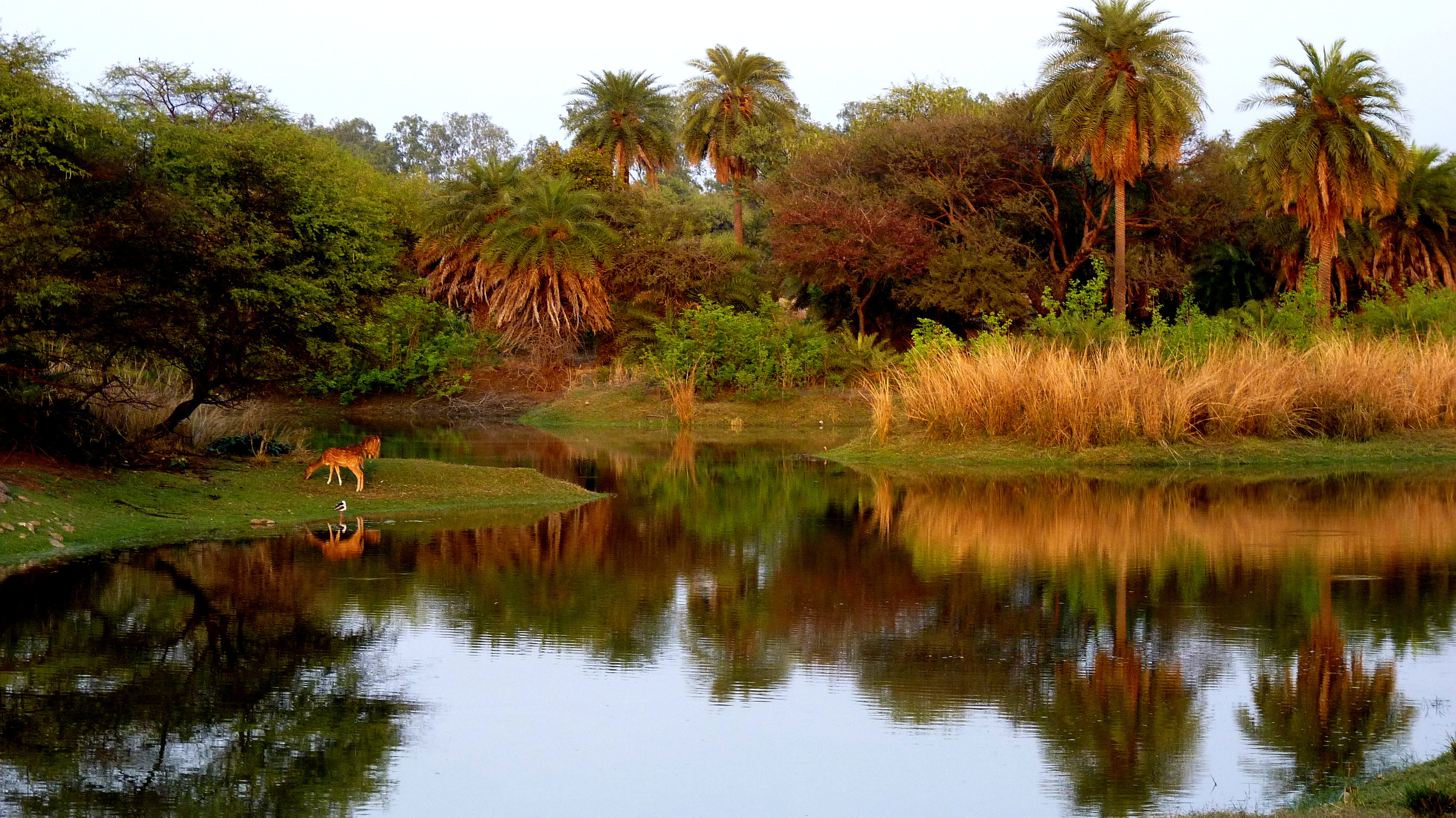 deer in zoo